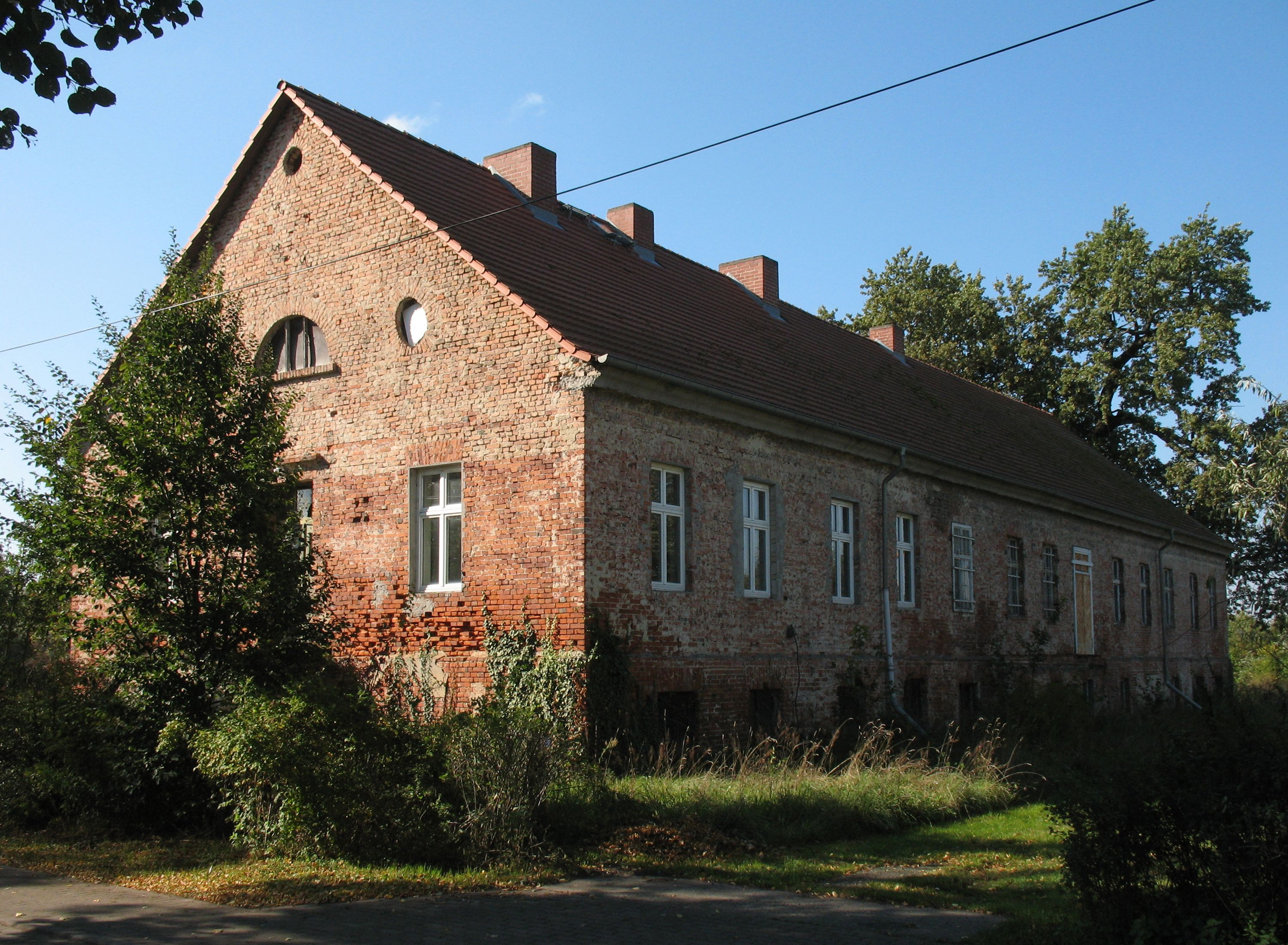 Manor house in Fehrbellin-Königshorst in Brandenburg, Germany